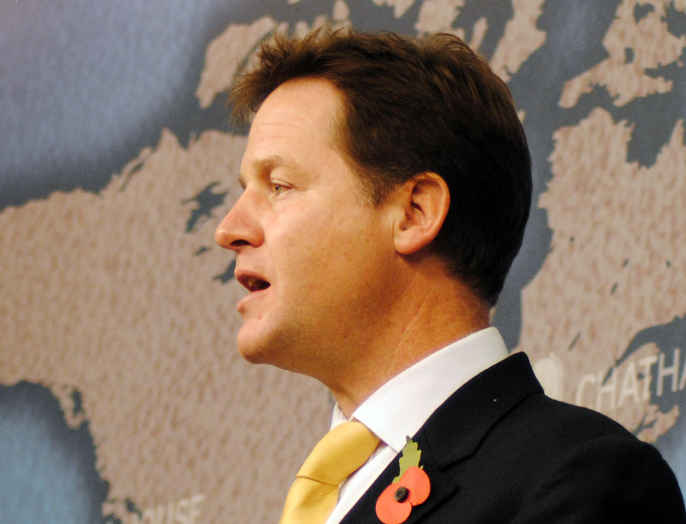 A Vision for the UK in Europe, Thursday 1 November 2012